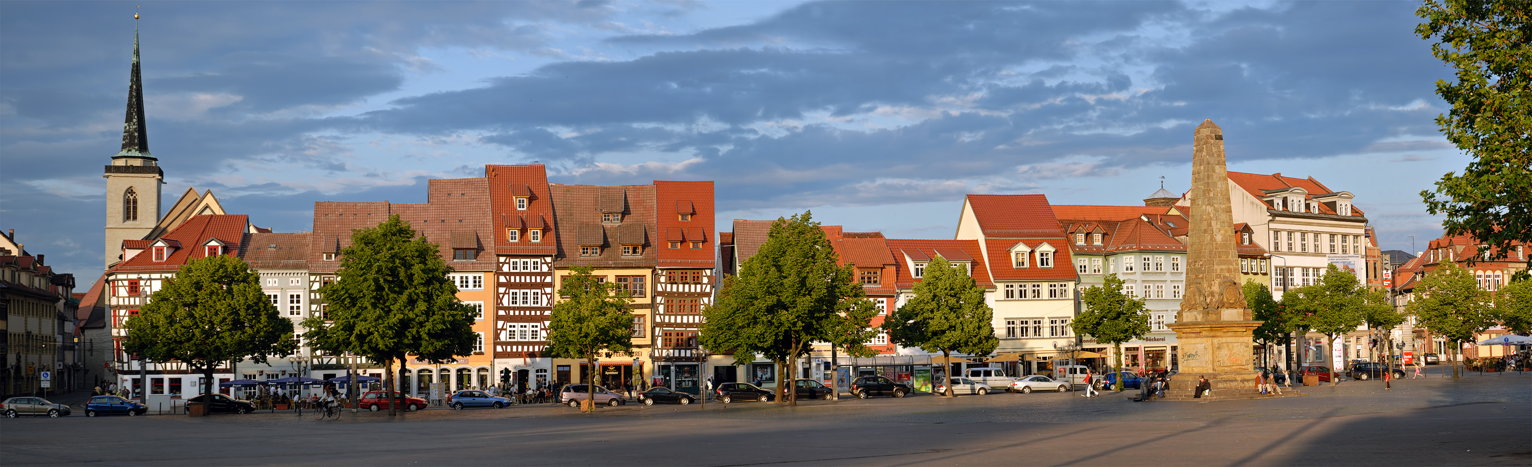 This image shows a the cathedral square in Erfurt, Germany. It has been stitched together from four images.